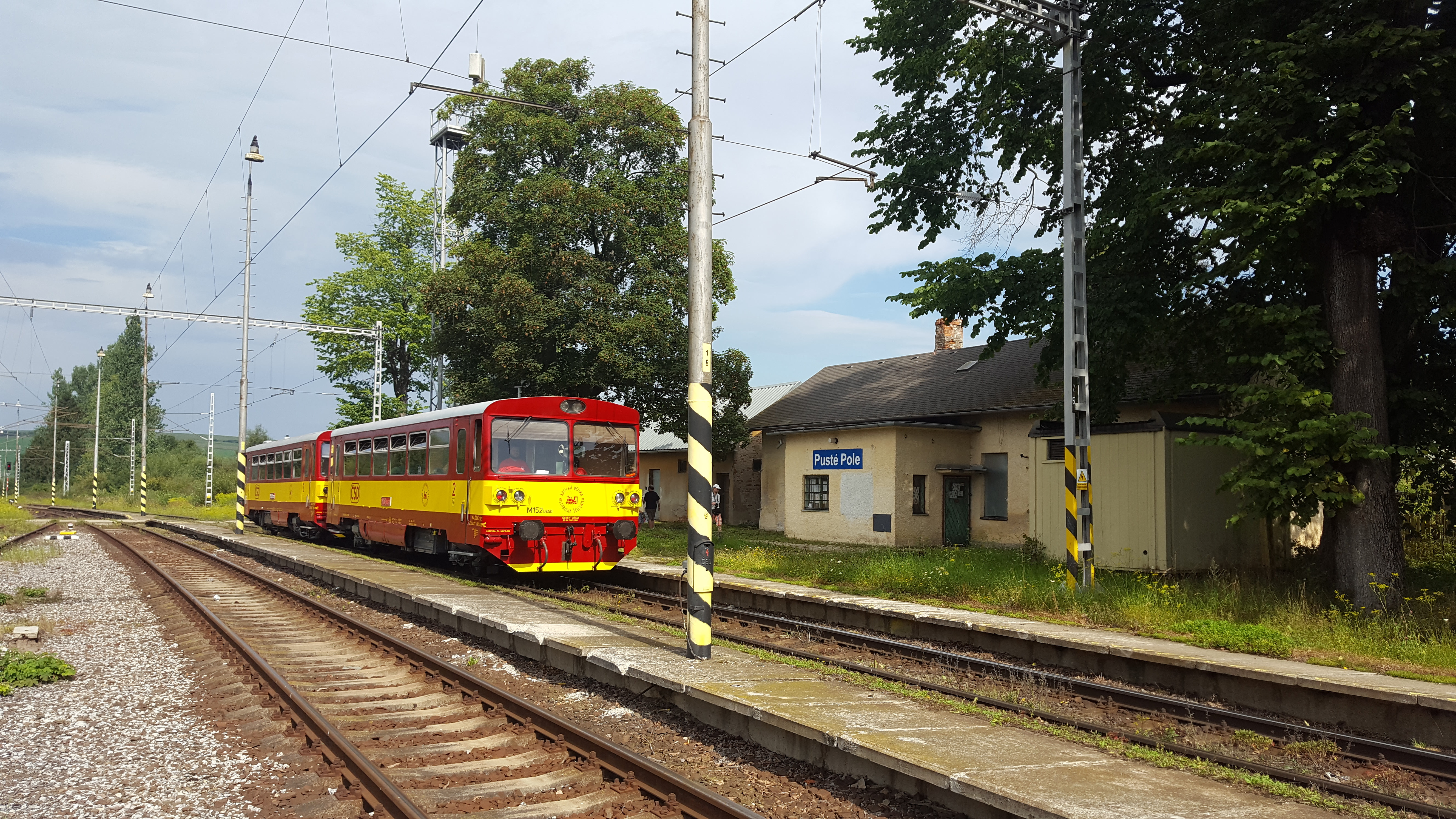 A tourist train of Košice Children's Railway at a station in Pusté Pole, Slovakia, on a route from Košice to Plaveč and Muszyna.